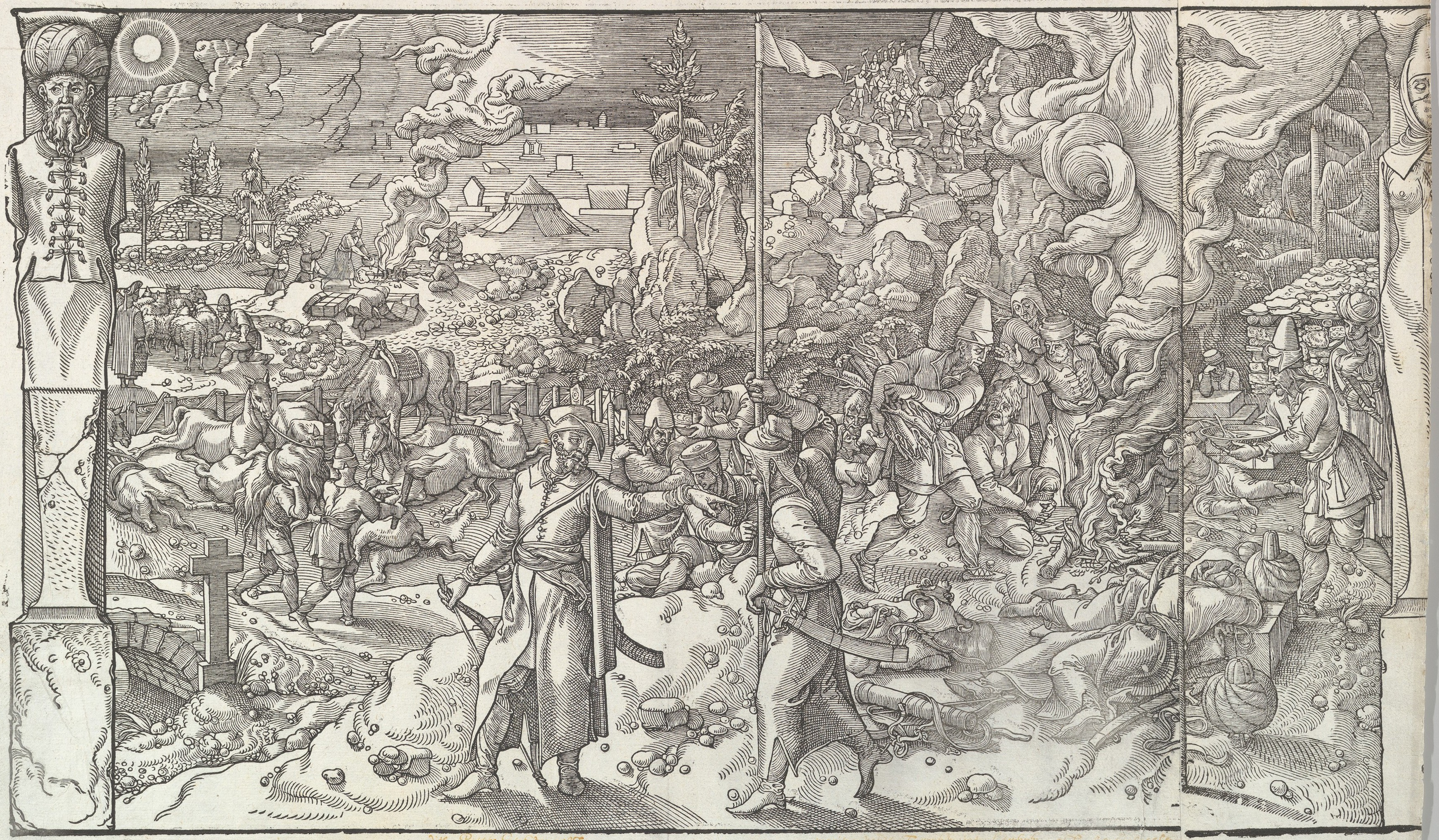 A Military Camp in Slovenia from the frieze Ces Moeurs et fachons de faire de Turcz (Customs and Fashions of the Turks).